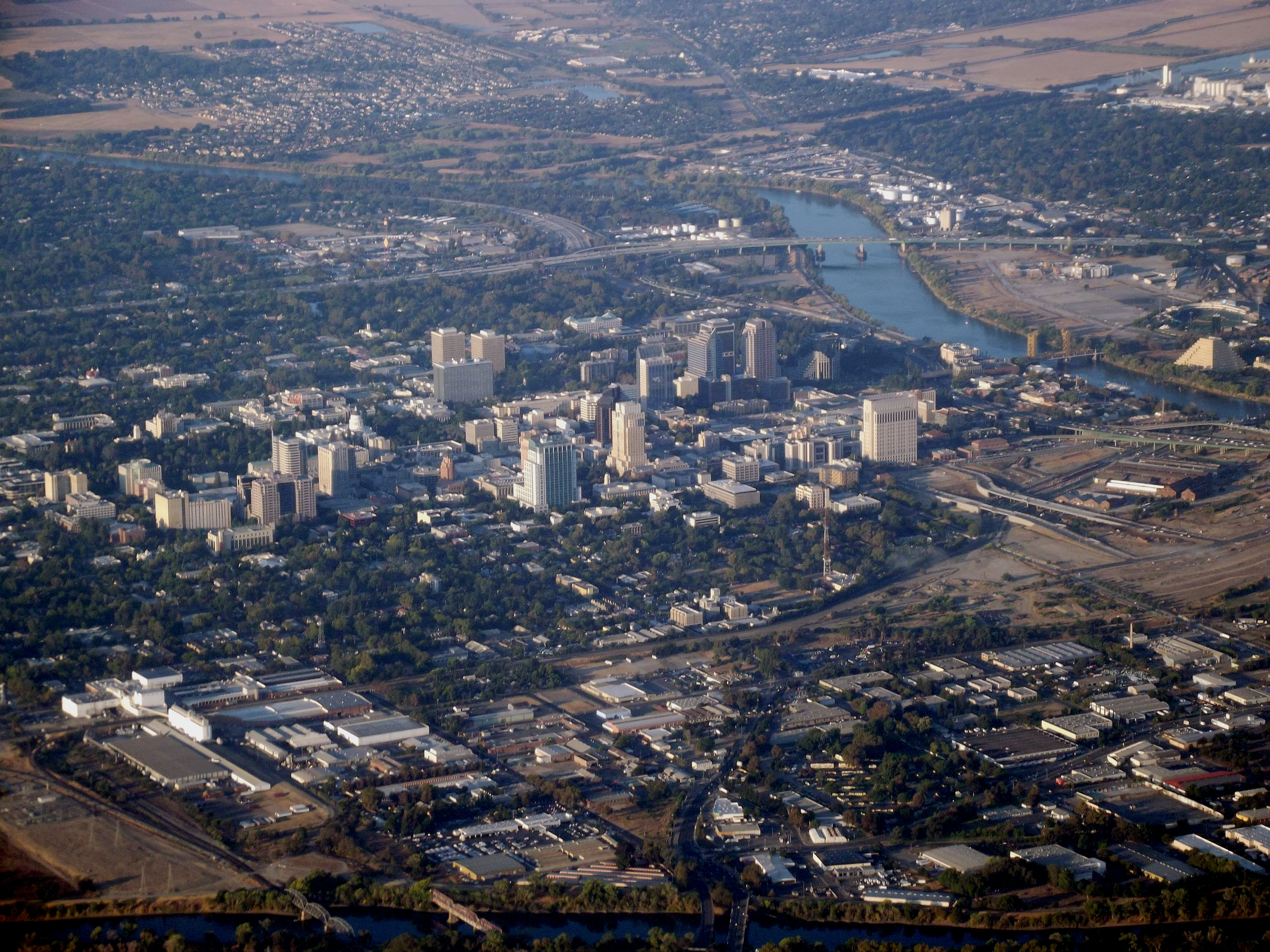 Sacramento from take off at Sacramento International Airport